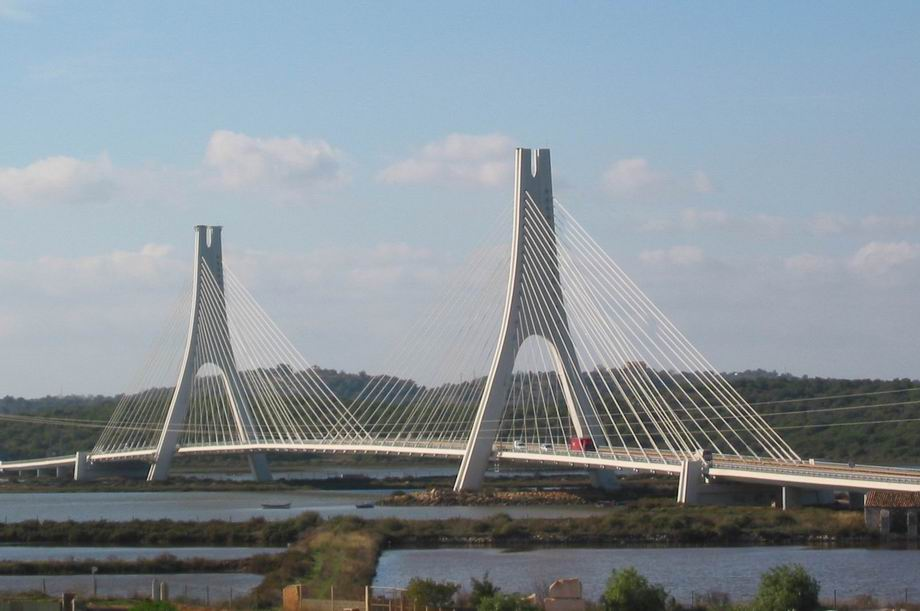 Lagos motorway concrete cable stayed bridge IC4 Portugal with nice shaped pylons in concrete